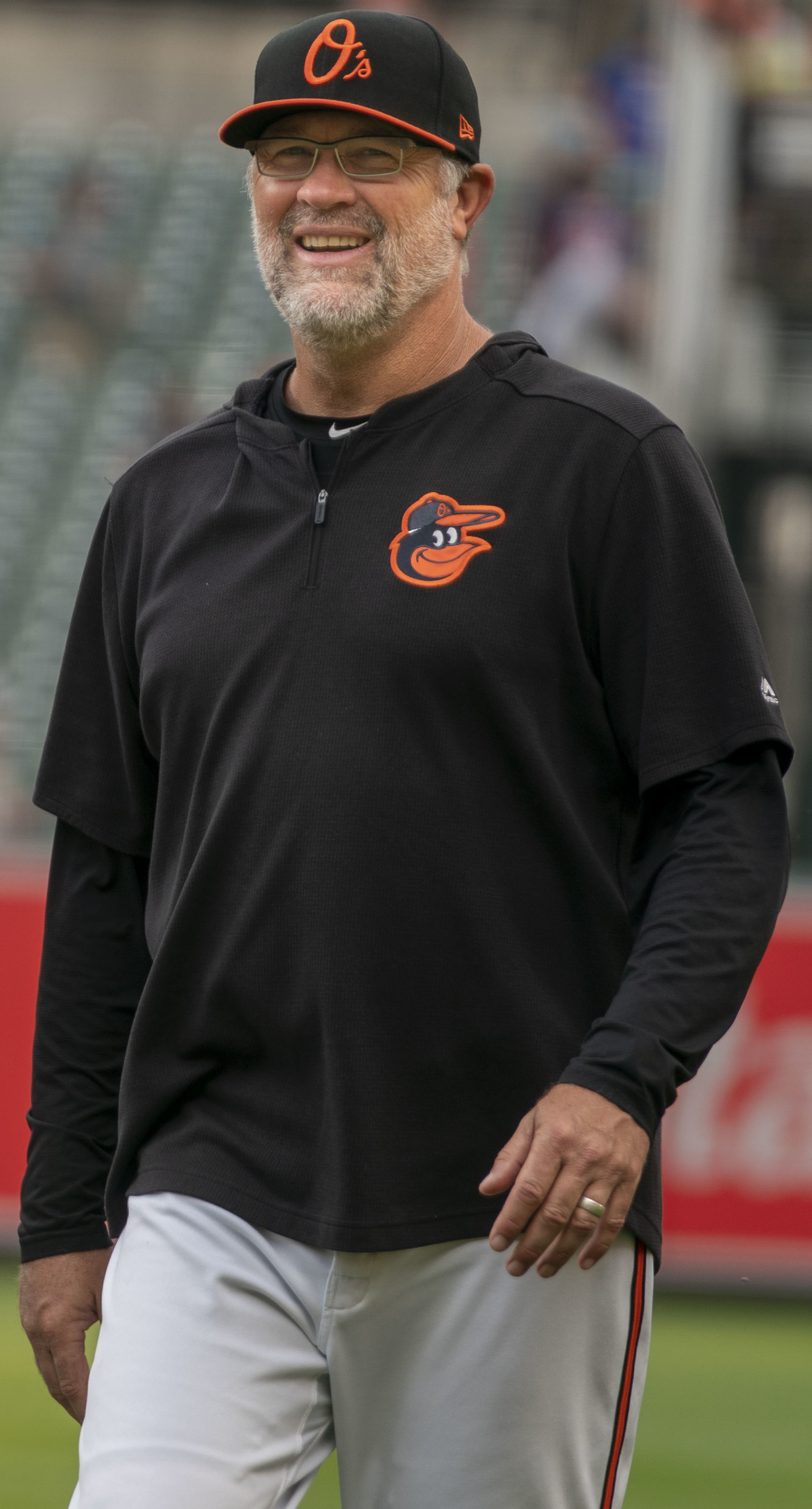 Indians at Orioles 6/28/19